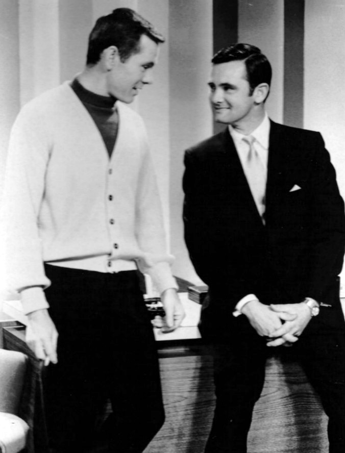 Photo of Johnny and Dick Carson at a Tonight Show rehearsal. Johnny's brother, Dick, was the director of the program.